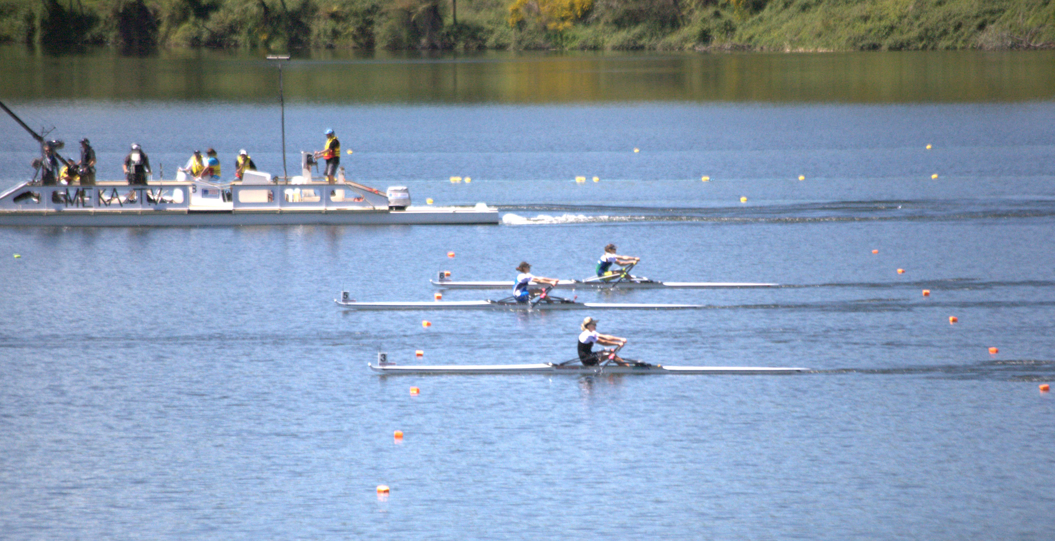 2010 World Rowing Championships: NZL's Louise Ayling delights the crowd with a silver. In lane 5 is Laura Milani (ITA) and in lane 6 is Fabiana Beltrame (BRA).